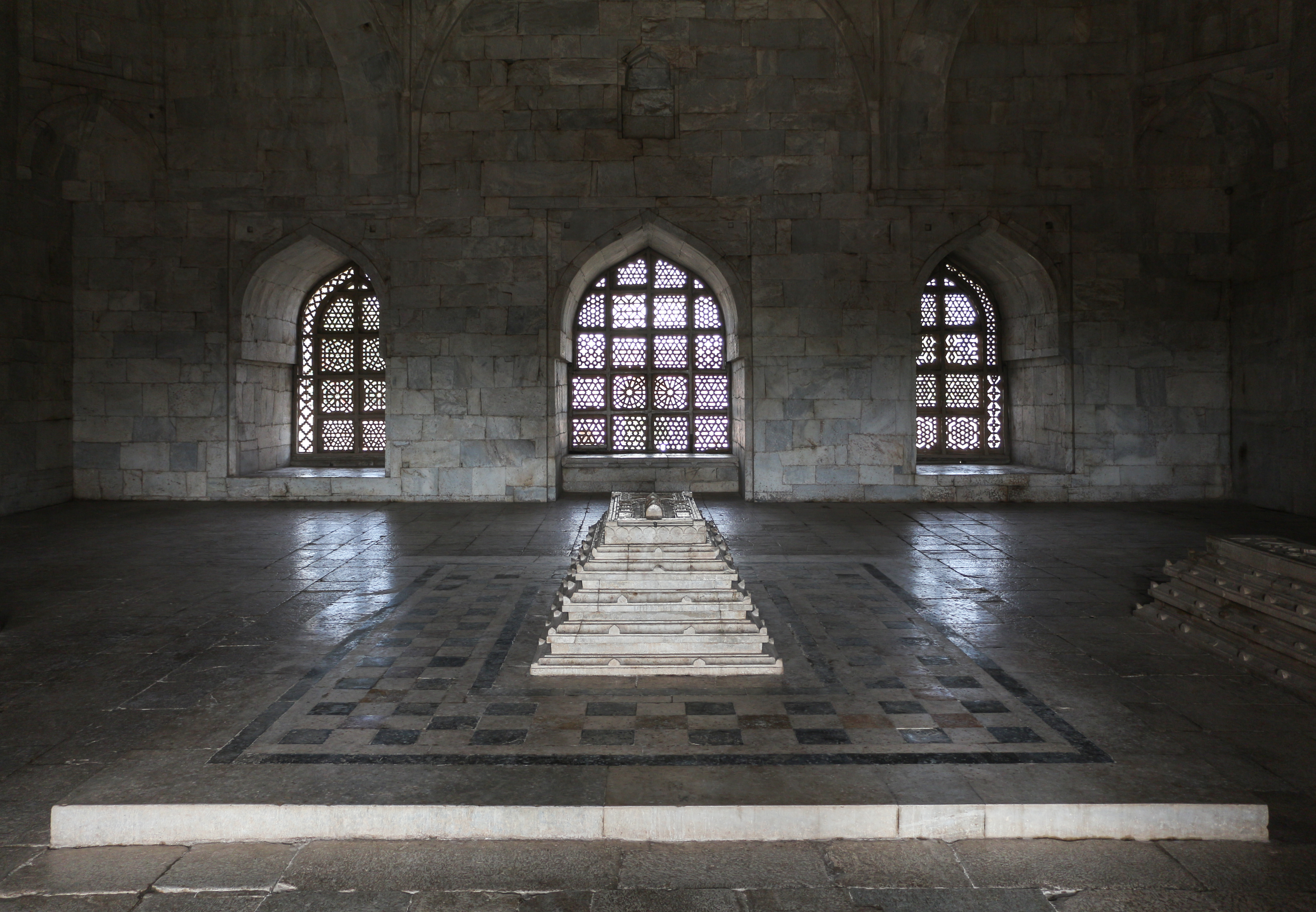 Interior of the Hoshang Shah's Mausoleum, Mandu, India